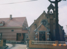 Hirosaki Ascension (Anglican) Church, Japan - Outside